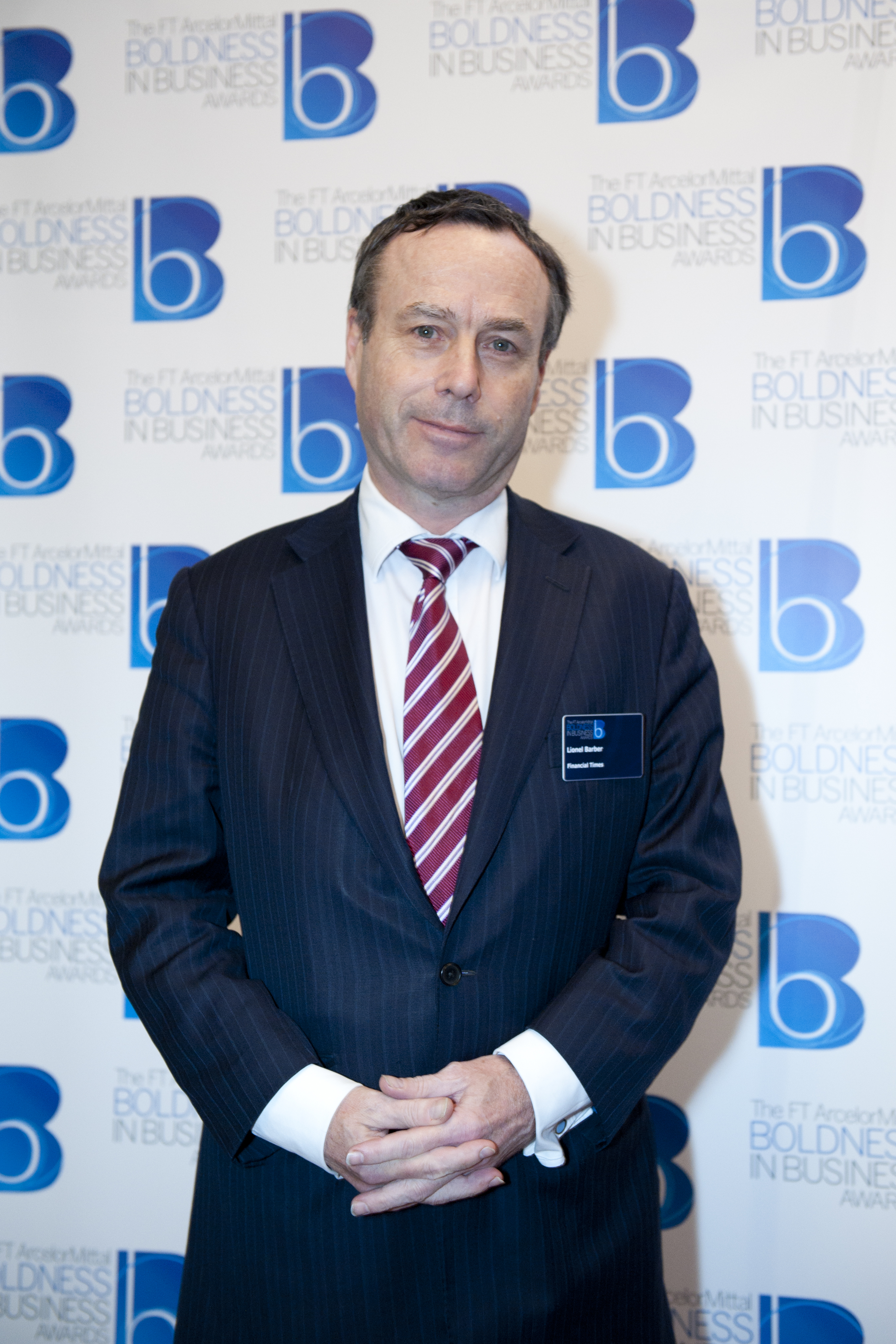 Lionel Barber, editor of the Financial Times, arrives at the Boldness in Business Awards 2013 in London